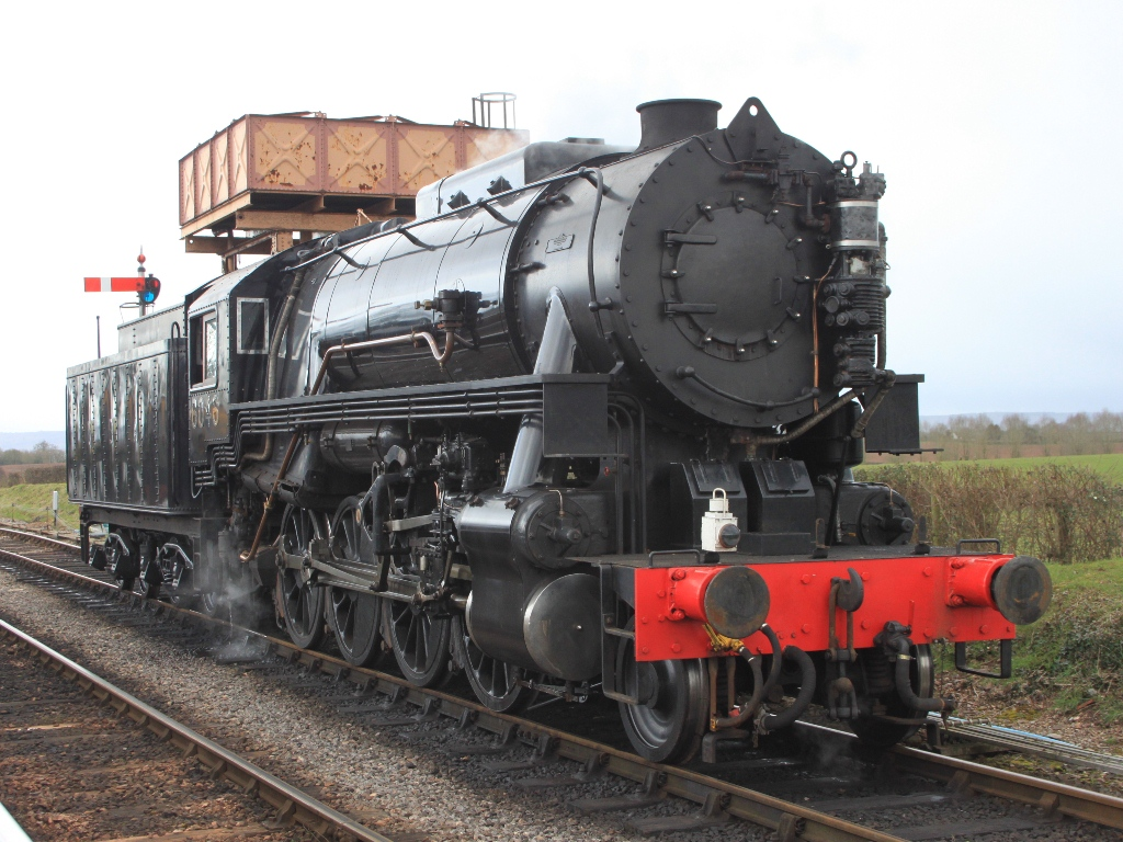 Visiting US Army S160 Class 6046 at Bishops Lydeard on the West Somerset Railway.